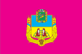 Flag of Velykoburlutskyj district (Ukraine)